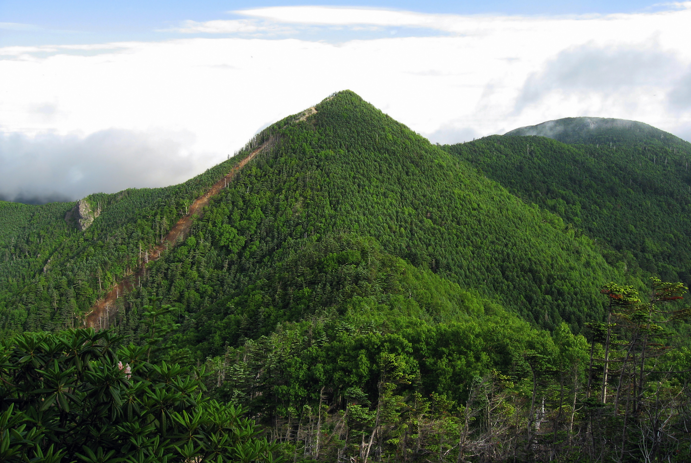 View of Mt.Kobushigatake from Mt.Tokusa.